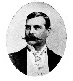 North Borneo Chartered Company: Portrait of W. C. Cowie